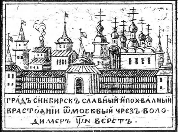 Lubok picture of Sinbirsk (later Simbirsk, today Ulyanovsk)